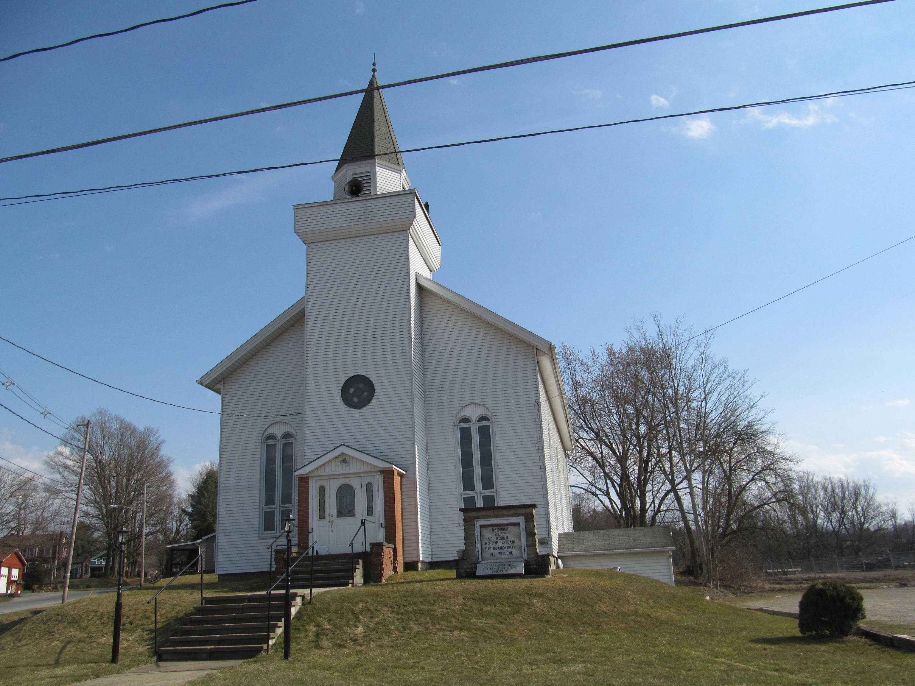 Front of the Spartansburg United Methodist Church, located at 100 Main Street (Pennsylvania Route 77) in Spartansburg, Pennsylvania, United States.